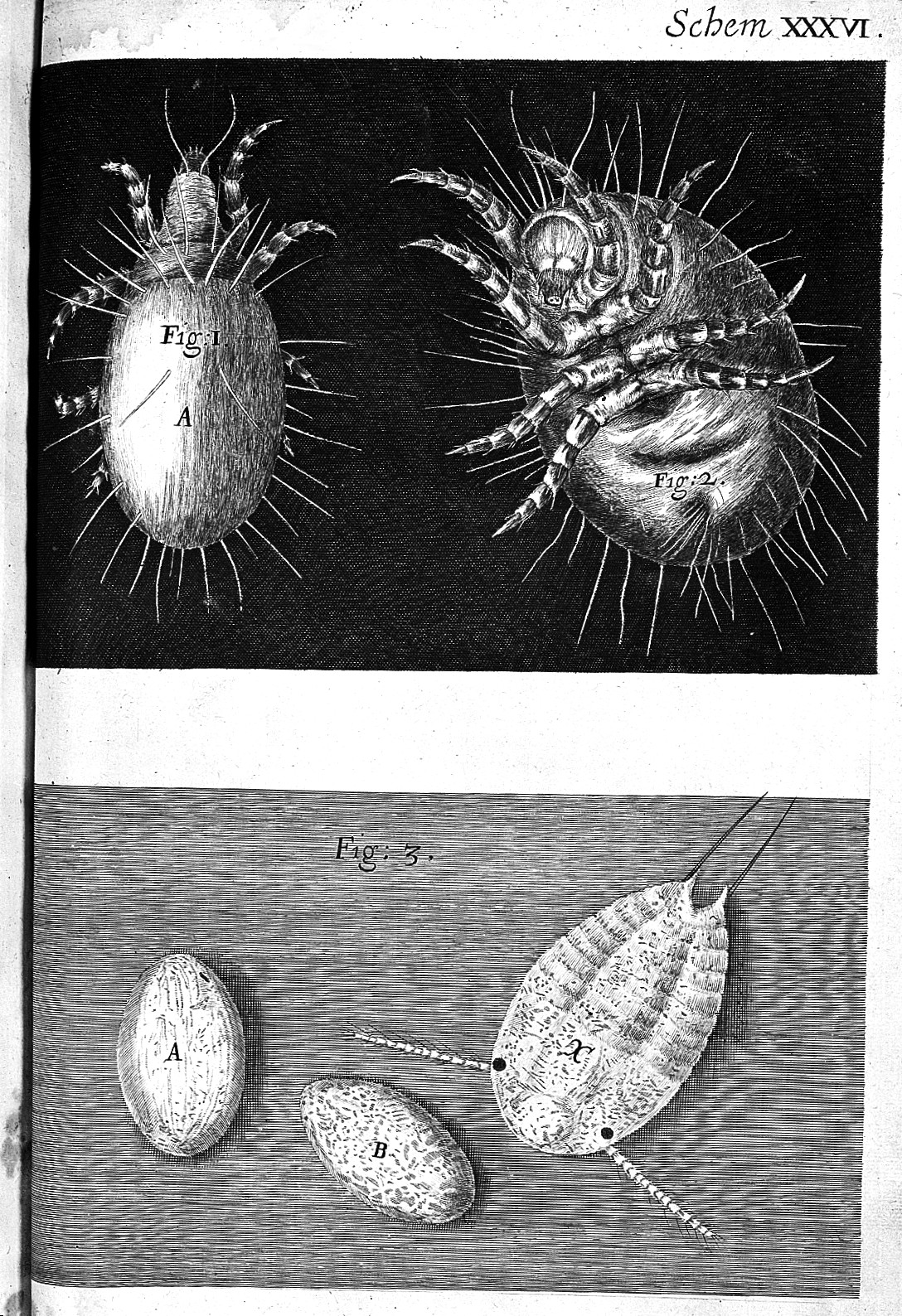 Robert Hooke, Micrographia, mites; eggs. Rare Books Keywords: Microscopy